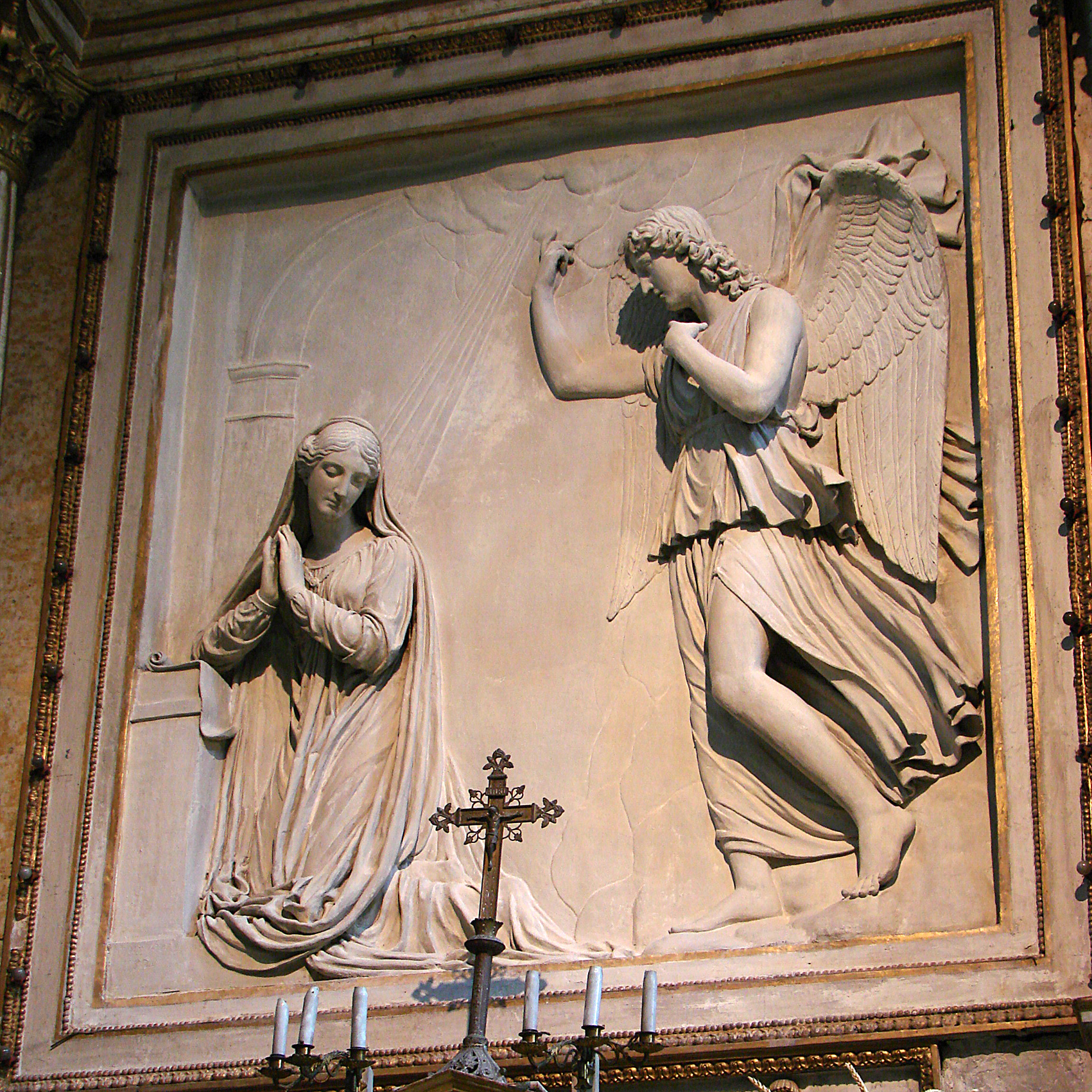 Relief of the Annunciation, Auch Cathedral, France